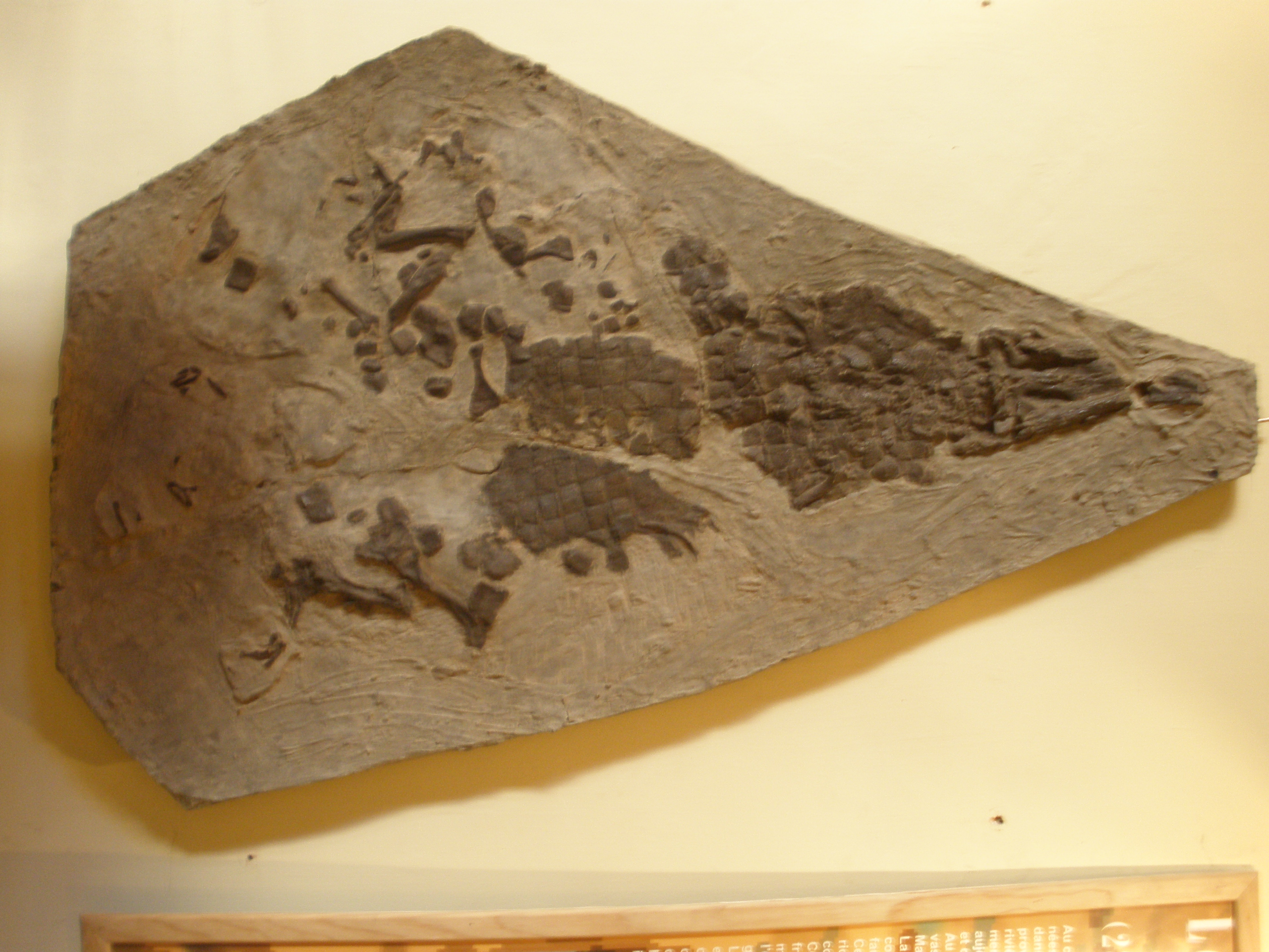 fossil Diplocynodon cf D. rateli, a crocodilian